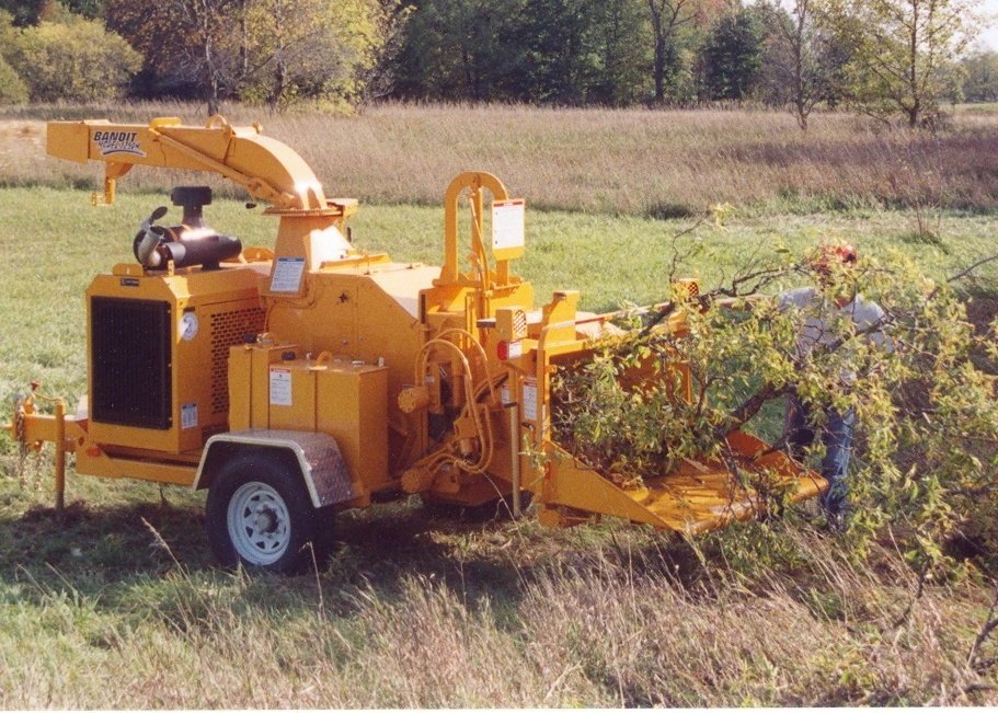 Bandit Industries model 1290H 12" drum chipper with autofeed system.